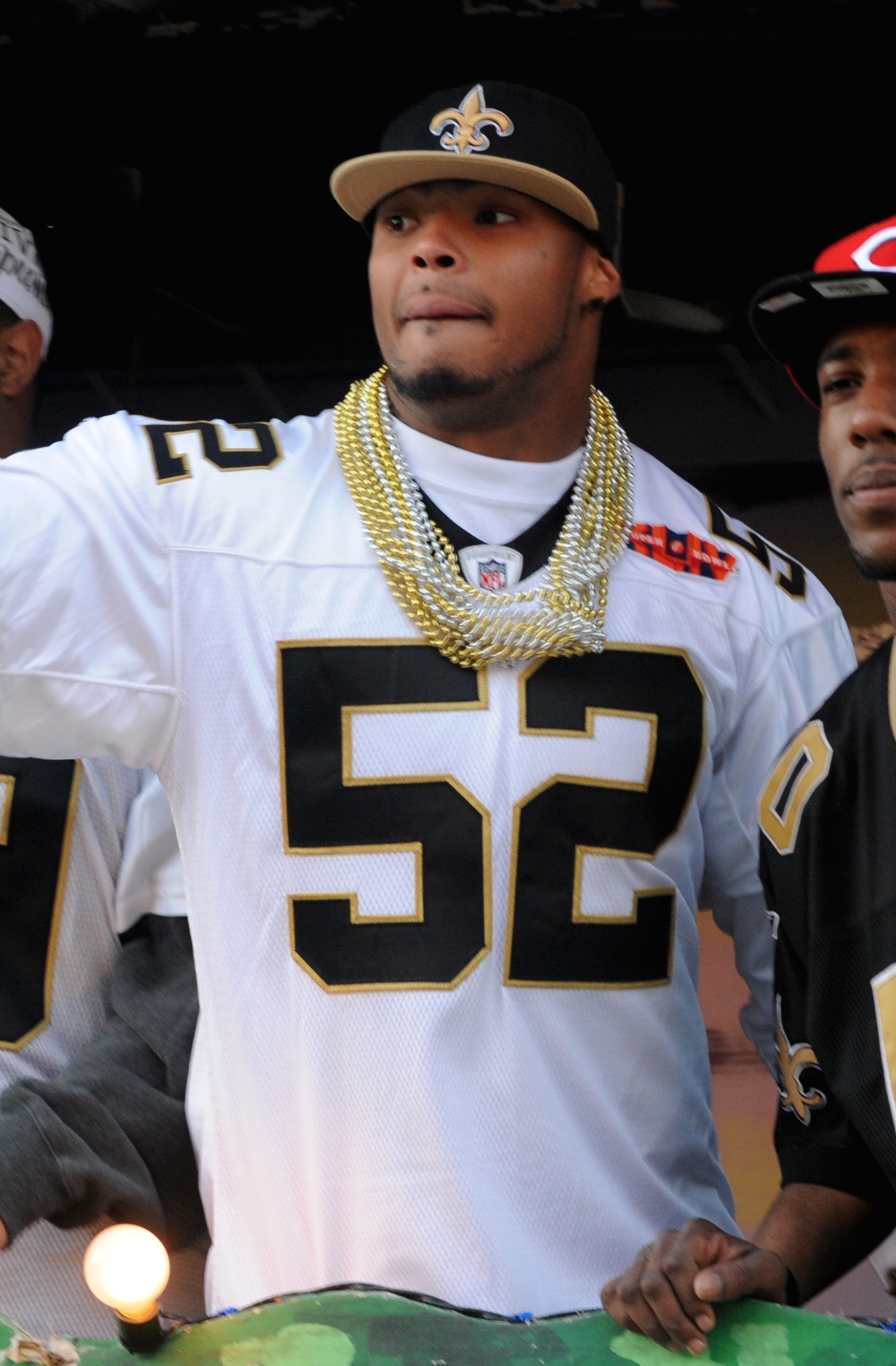 February 9, 2010